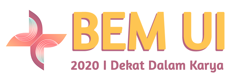 Logo BEM UI 2020